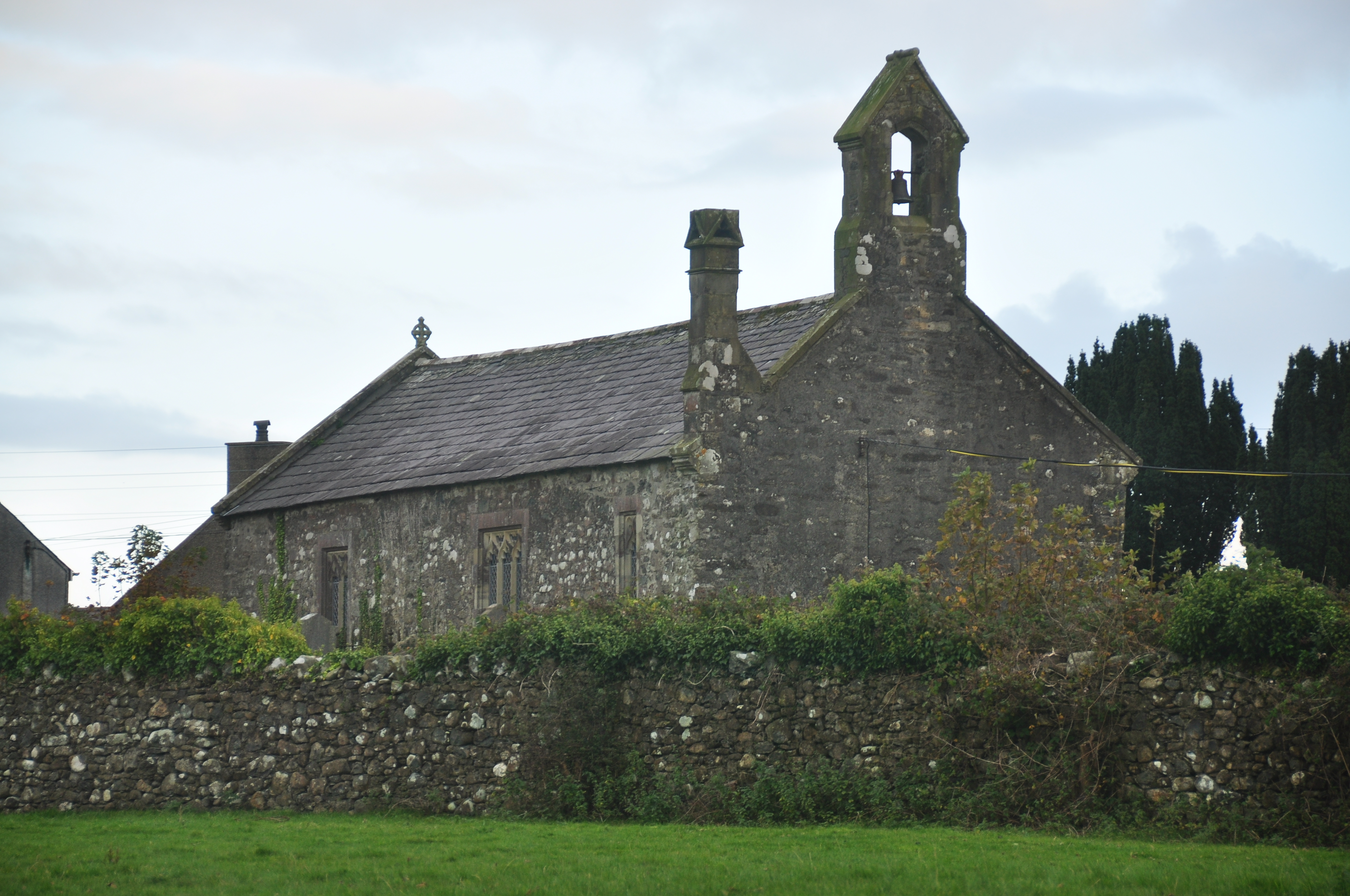 St Cybi's Church, Llangybi